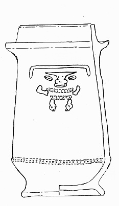 A Tairona 'Treasure Jar' in Japanese-style archaeological drawing of ceramics